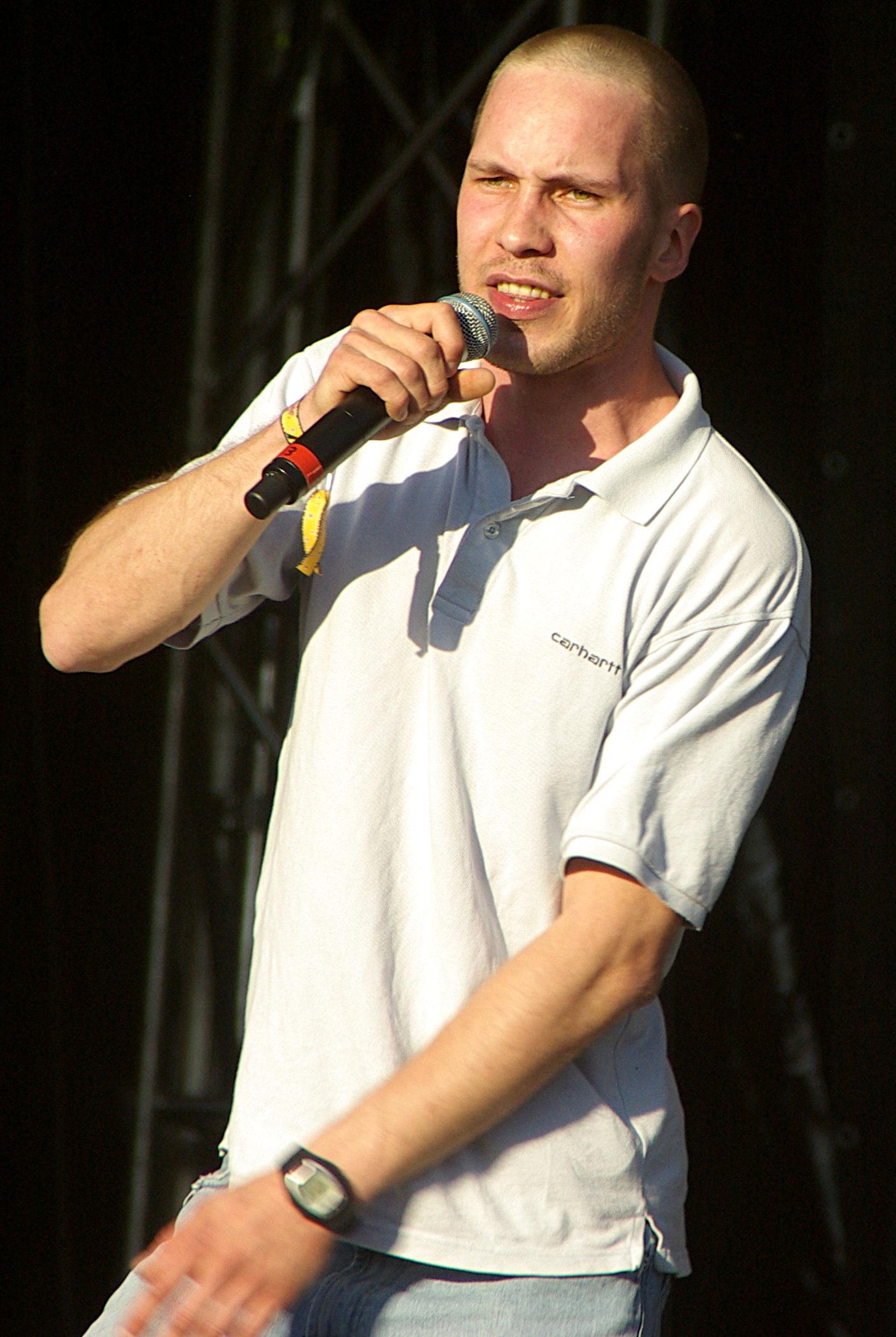 German Rapper Pitvalid during a gig on Passau Pfingst Open Air 2008